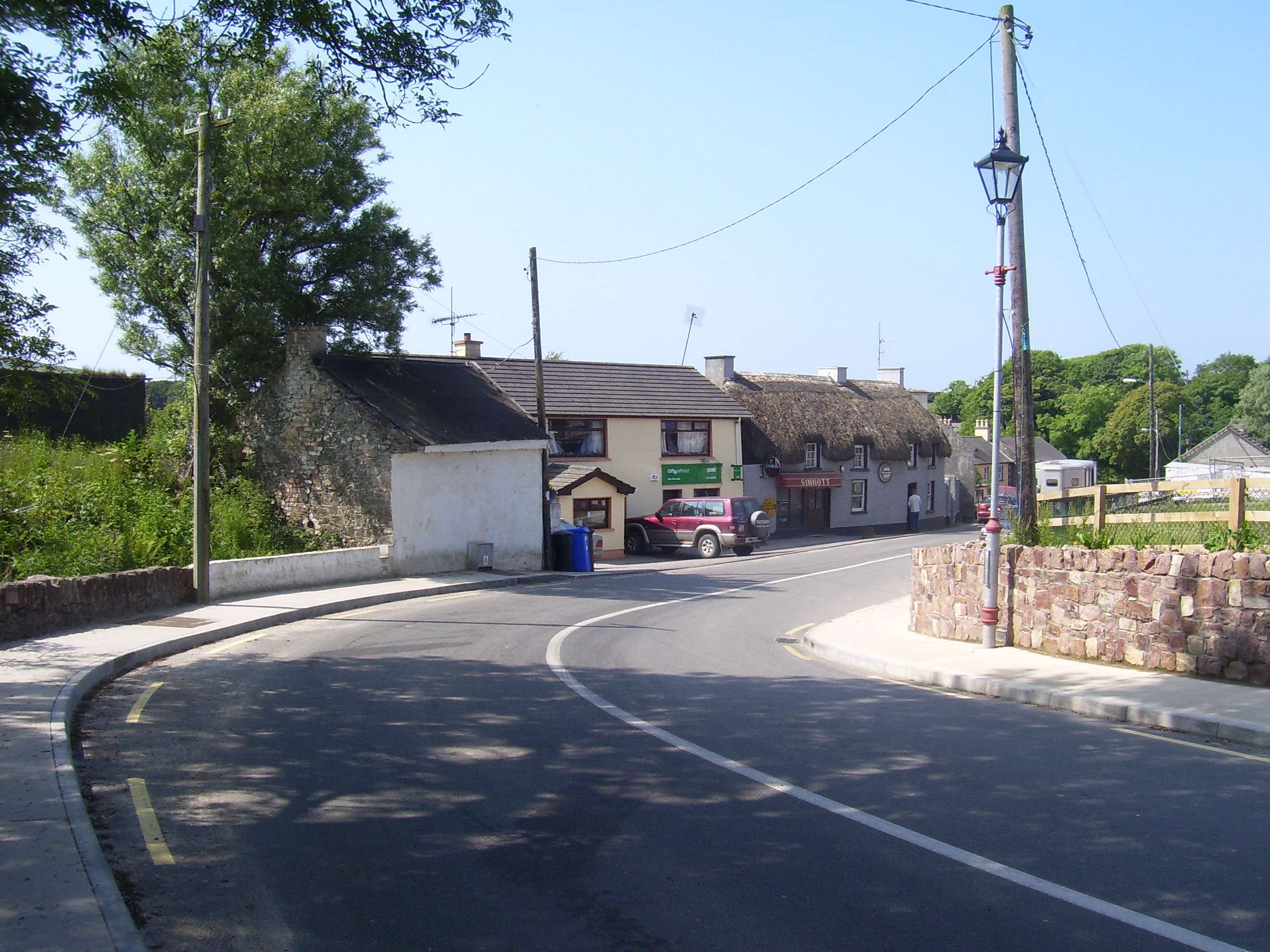 This is the centre of Duncormick Village, with the green, An Post, postal office in the background.